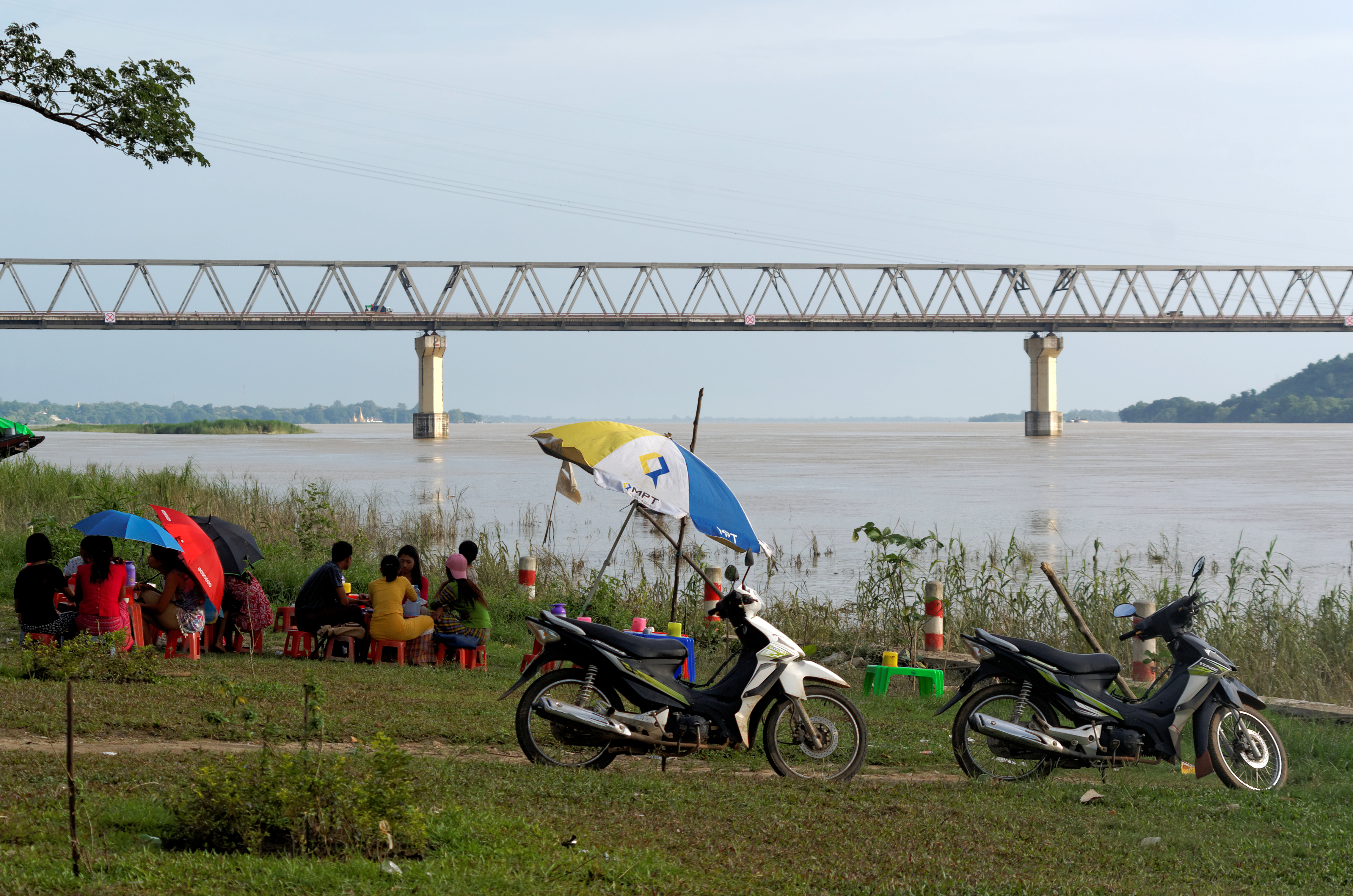 Coast of Irrawaddy River in Pyay, Myanmar